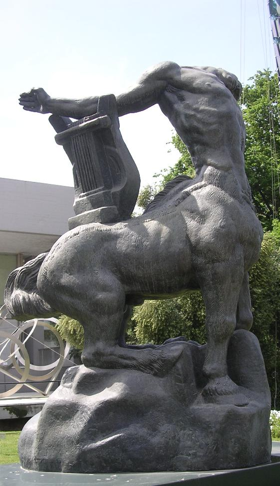 "Centaure Mourant" ("La mort du dernier centaure") — by Antoine Bourdelle (1914, bronze).